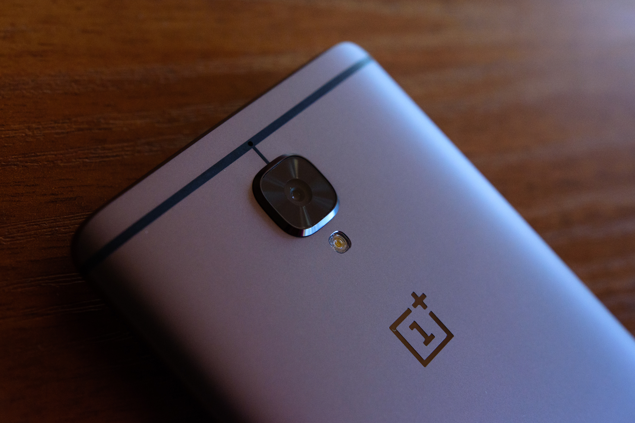 Rear view of OnePlus 3T. You can see antenna stripe, rear camera and logo of OnePlus.